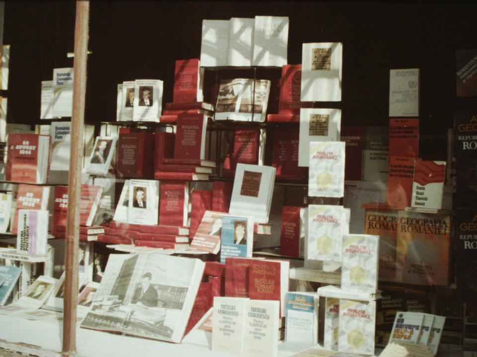 A Bucharest bookstore window, showcasing Ceaușescu's works.